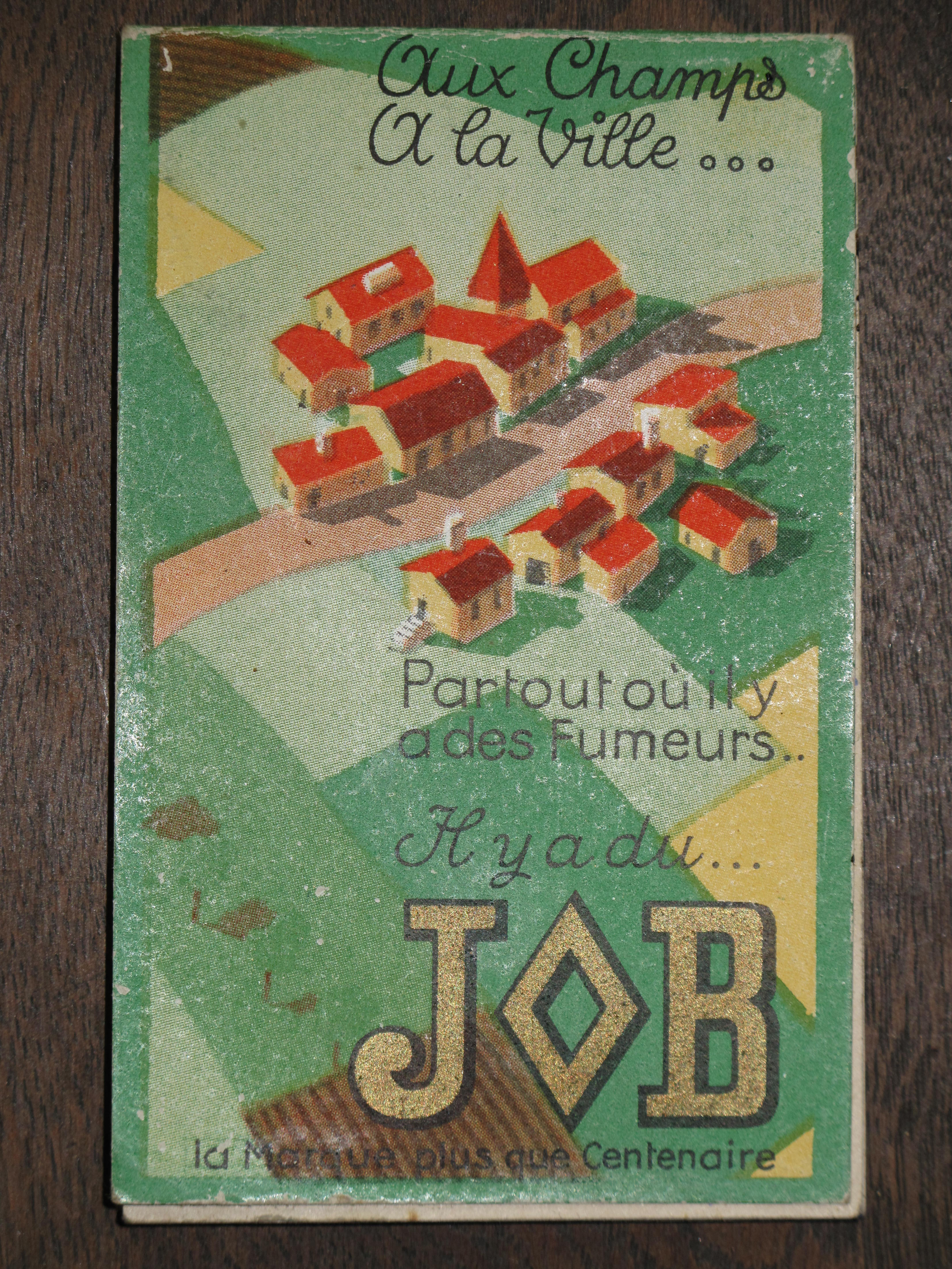 Advertisement for the cigaret paper sold by the French company Job. France, ca 1930.